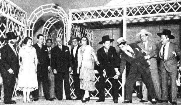 Premiere of Spanish Play La Lola se va a los puertos